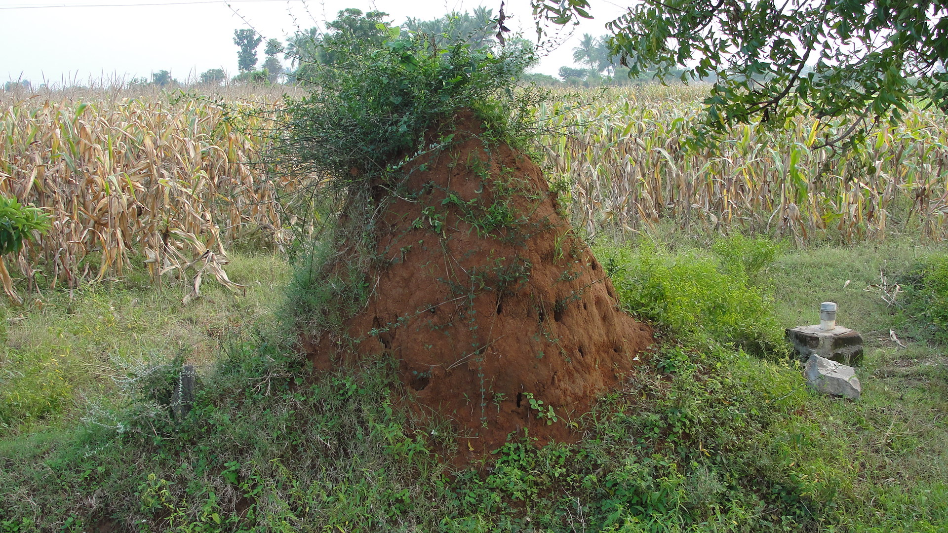 This picture depicting a mound thrown up by termites.Location: Pethanur, Chinna Salem Panchayat Union, Tamil Nadu, India.